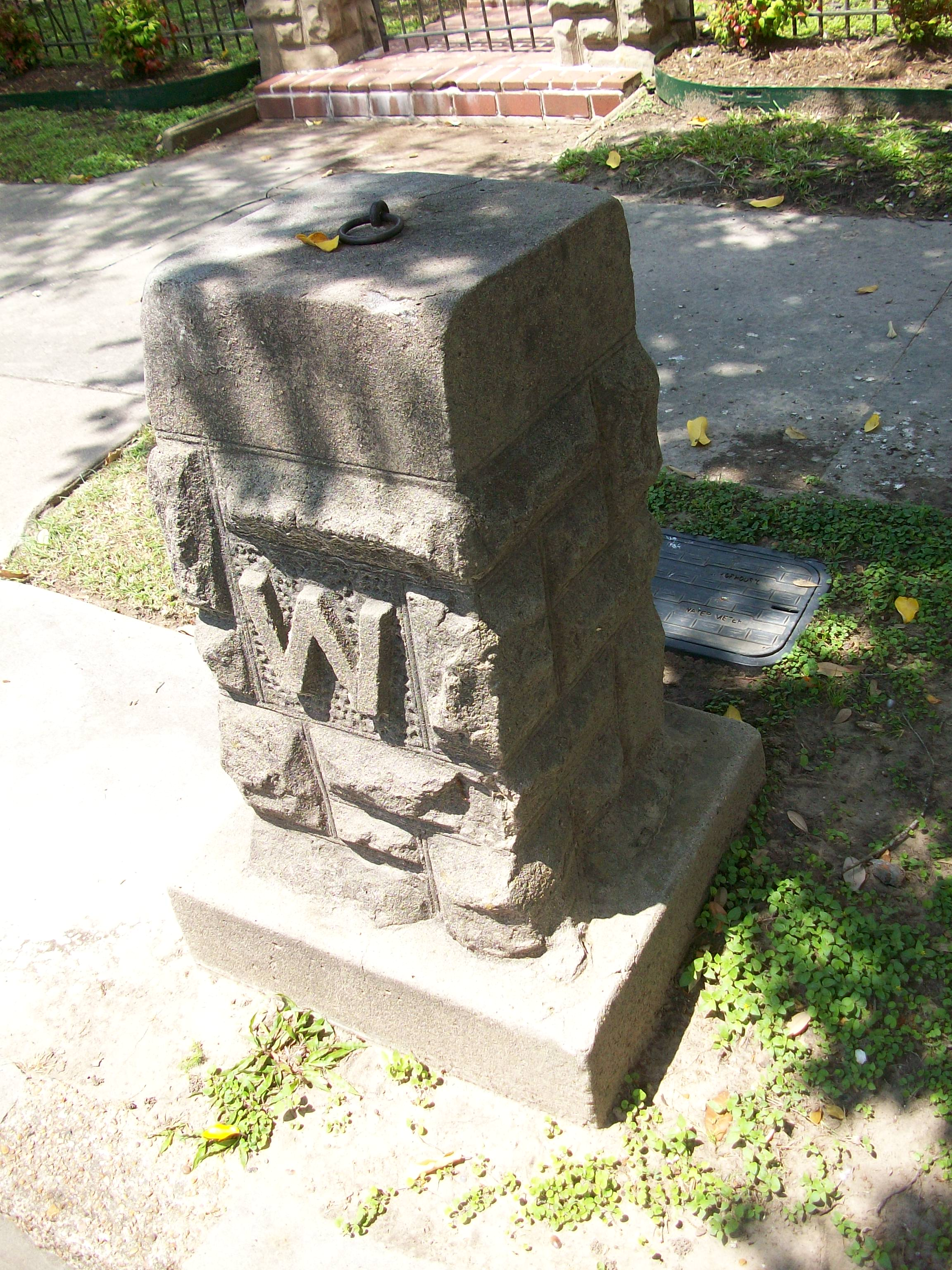 Washington Avenue (Houston, Texas)